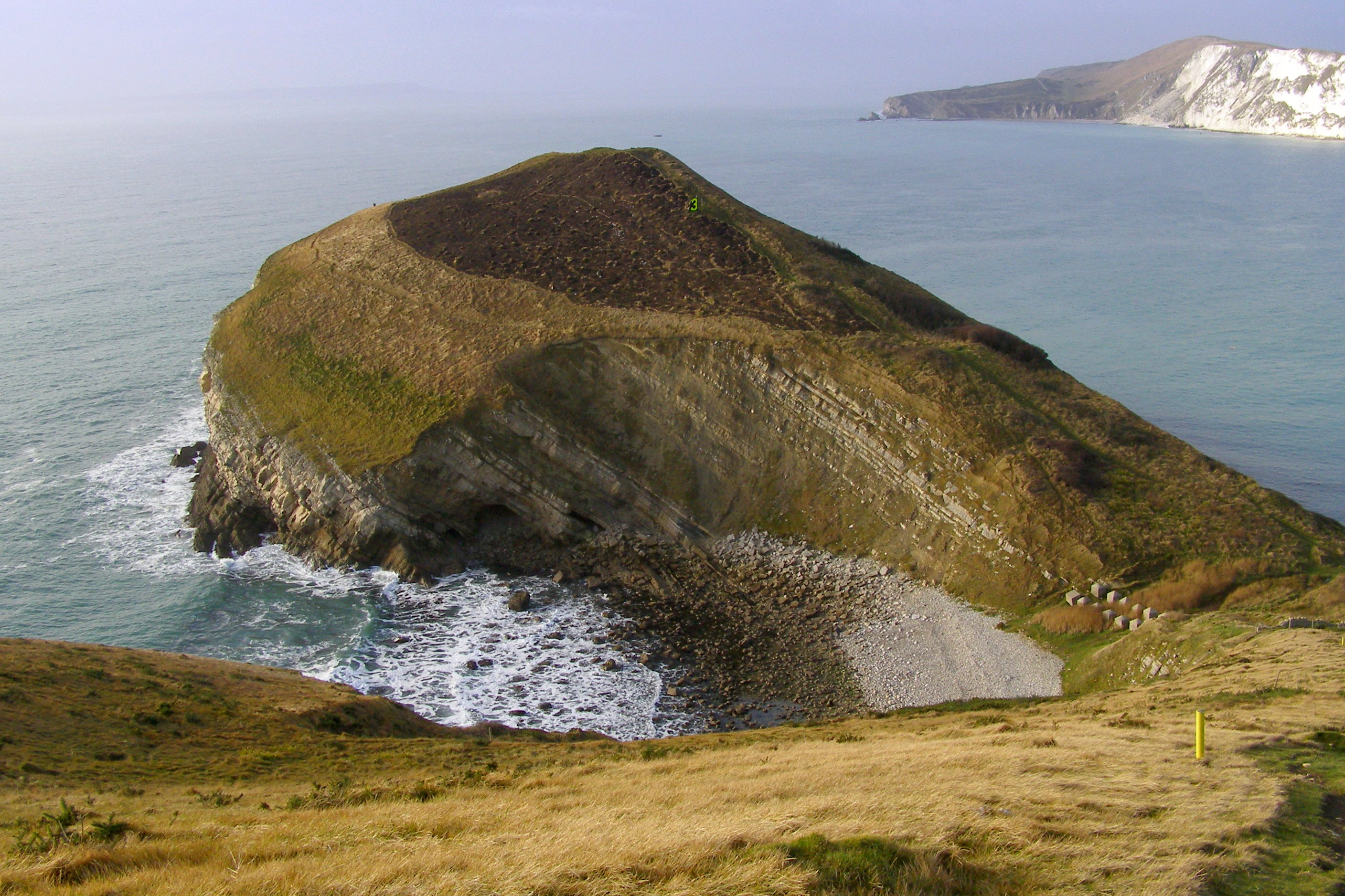 Pondfield Cove below, with Worbarrow Tout beyond. Isle of Purbeck, Dorset, U.K.